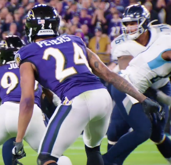 Marcus Peters in 2020. Image from video Derrick Henry's Jump Pass TD | Touchdown Tuesday, ~ 00:13.